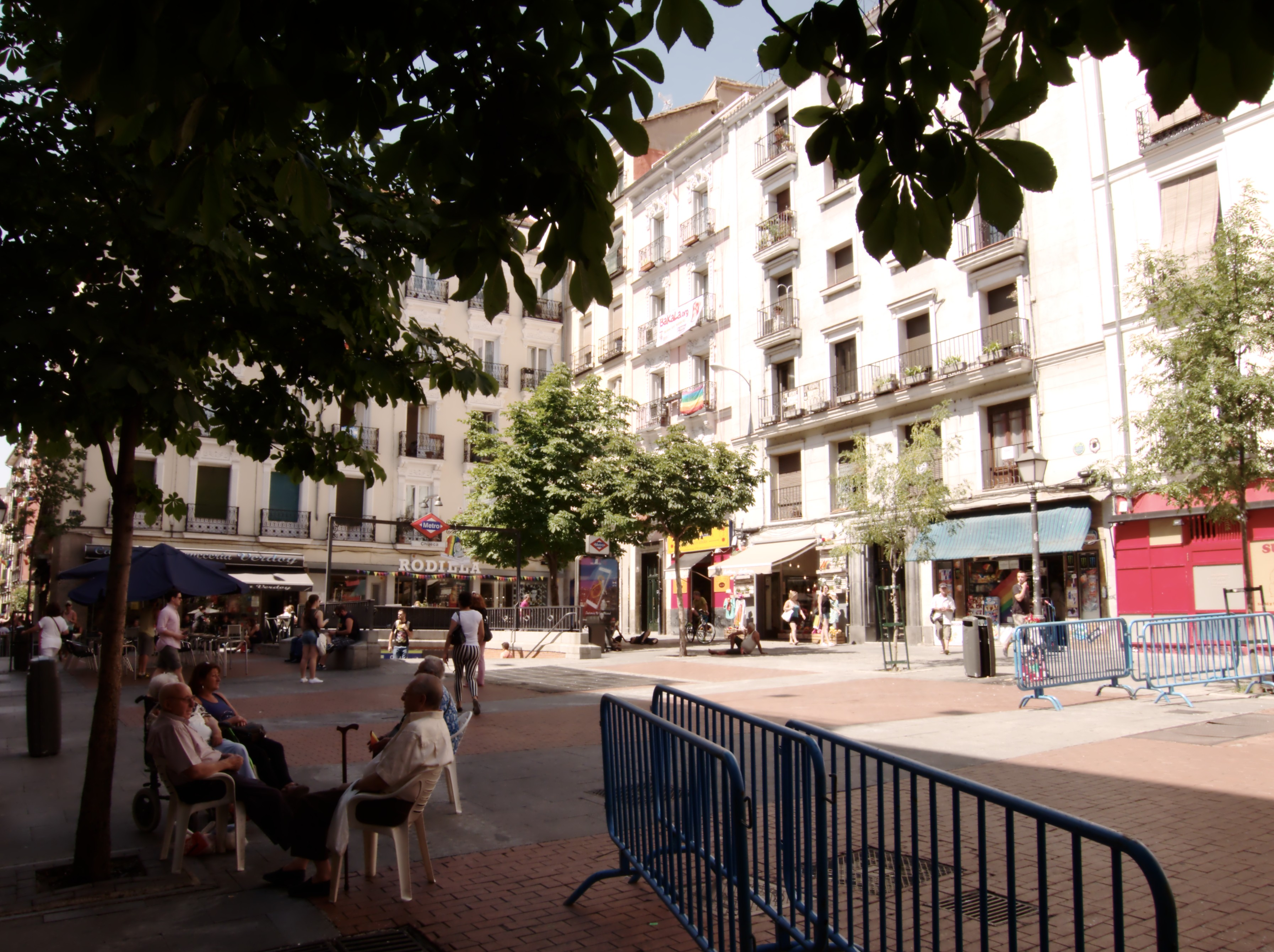 Chueca Neighborhood